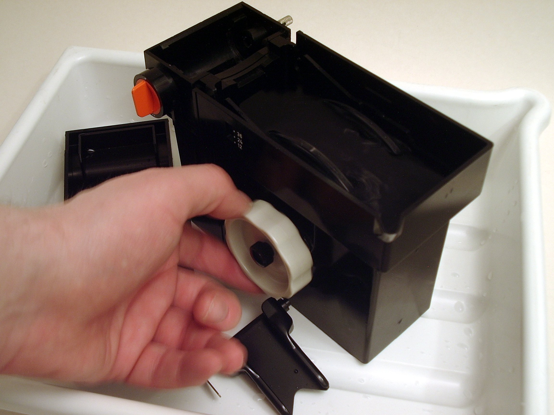 Agfa Rondinax 35 U / Schlusswässerung unter ständiger Bewegung des Films - Agfa Rondinax 35 U / Continously moving the film spool while finally washing-out of the developing agents.